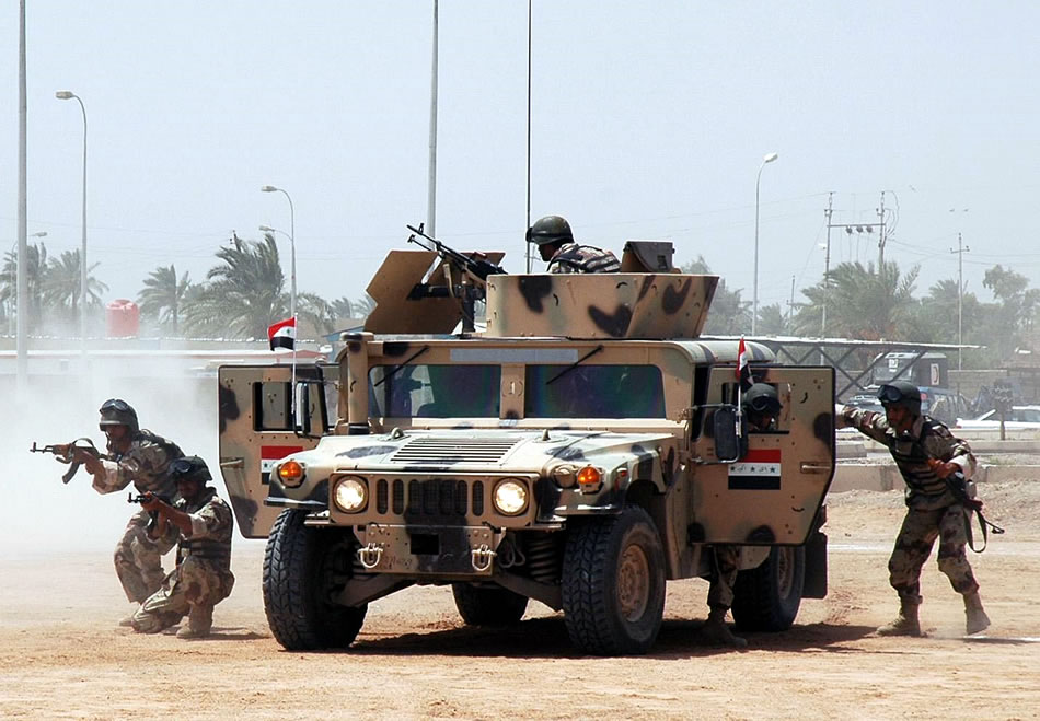 6th Iraqi Army